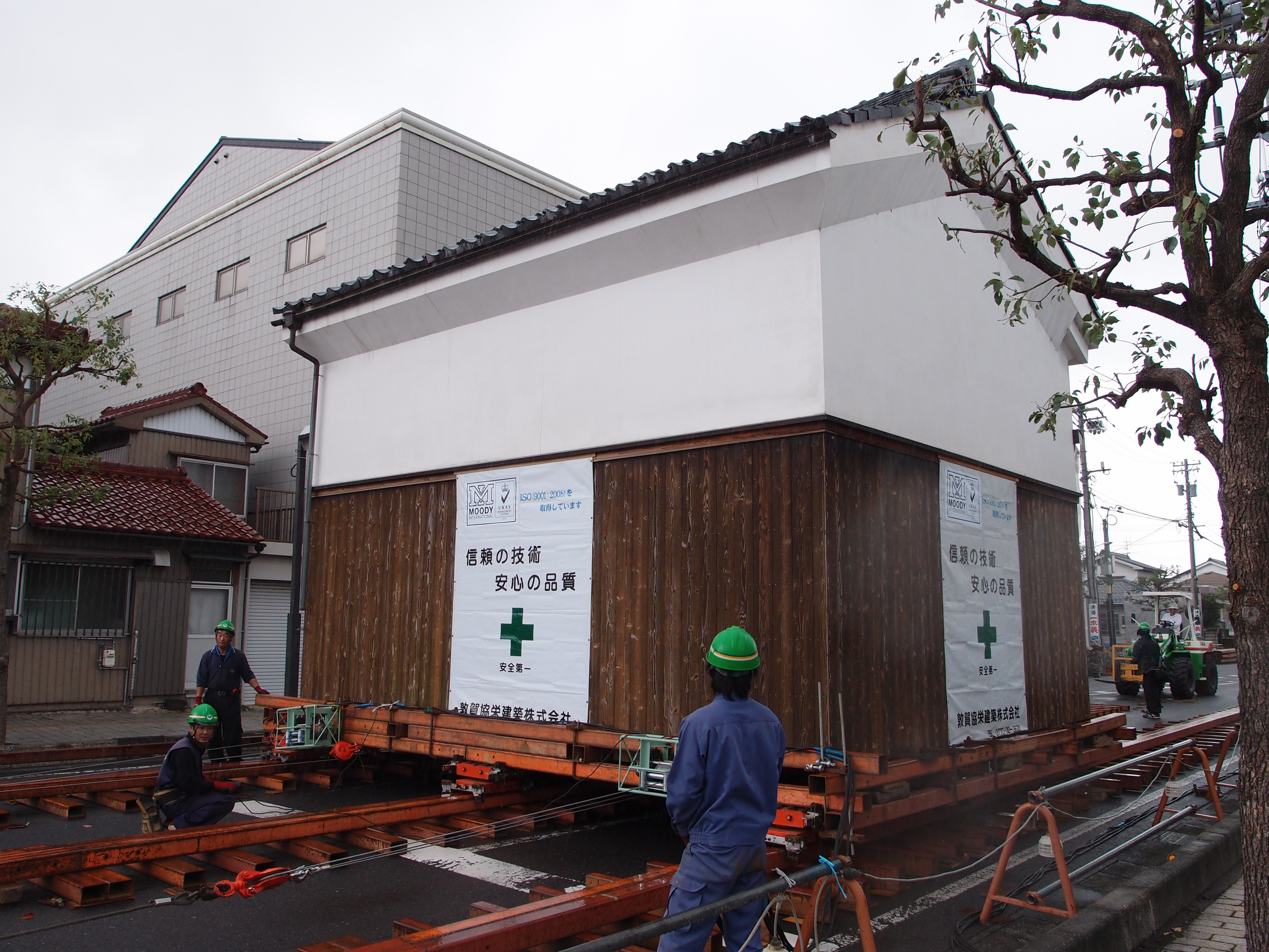 Relocation of old warehouse in Tsuruga City, Fukui Prefecture.